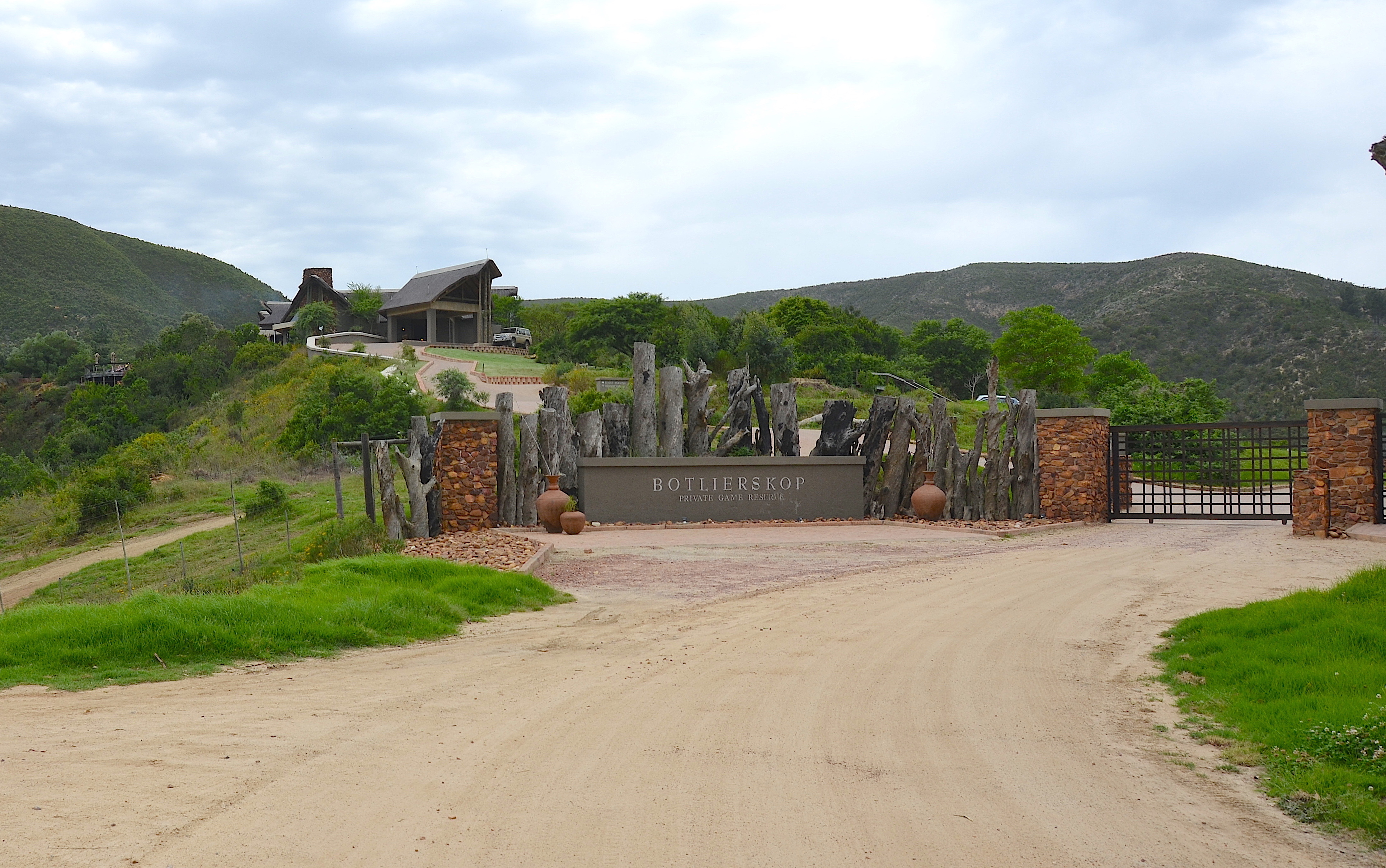 Botlierskop private Game Reserve in South Africa (2015)